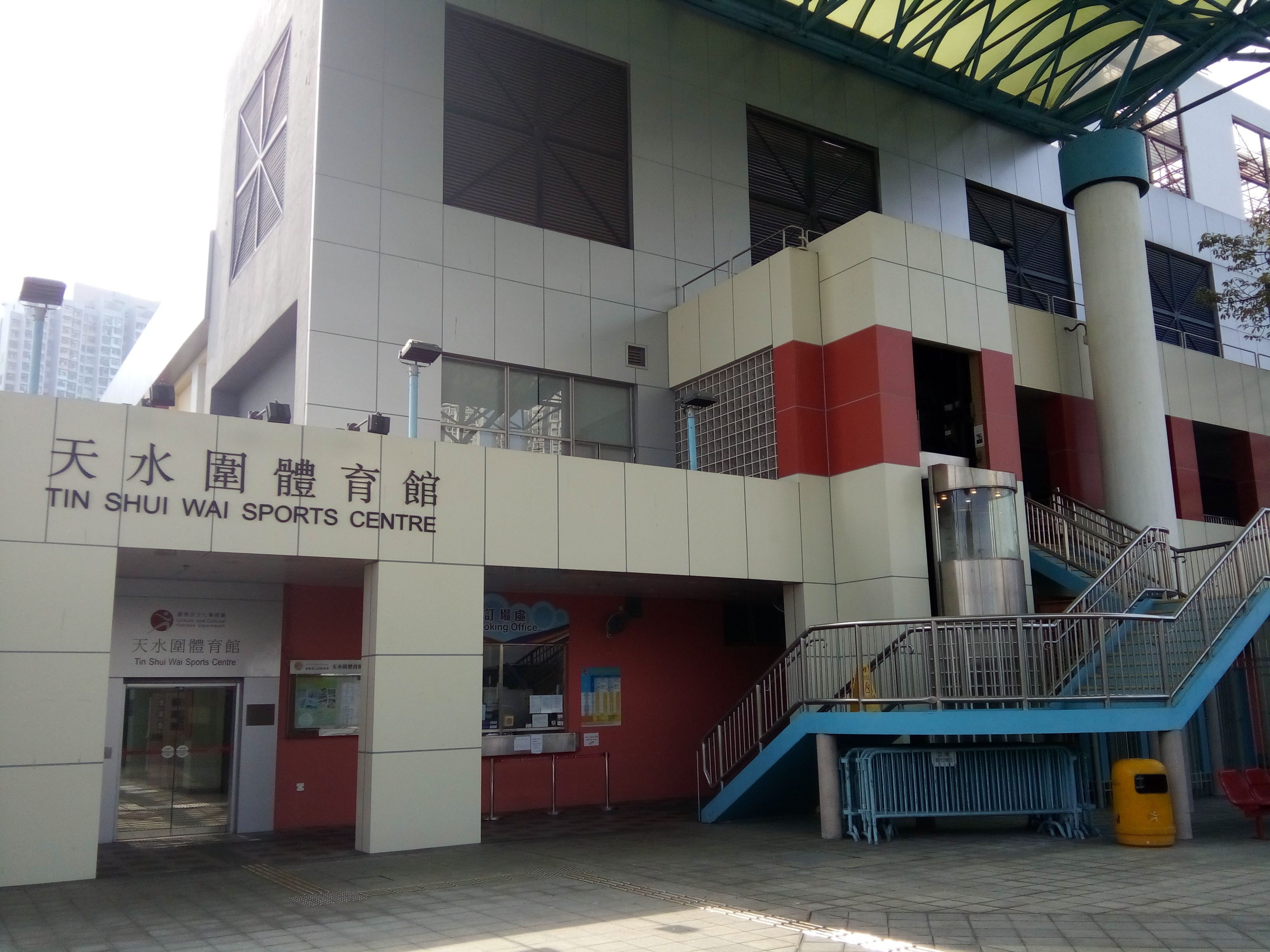 HK TSW 天水圍體育館 Tin Shui Wai Sports Centre in Dec 2016